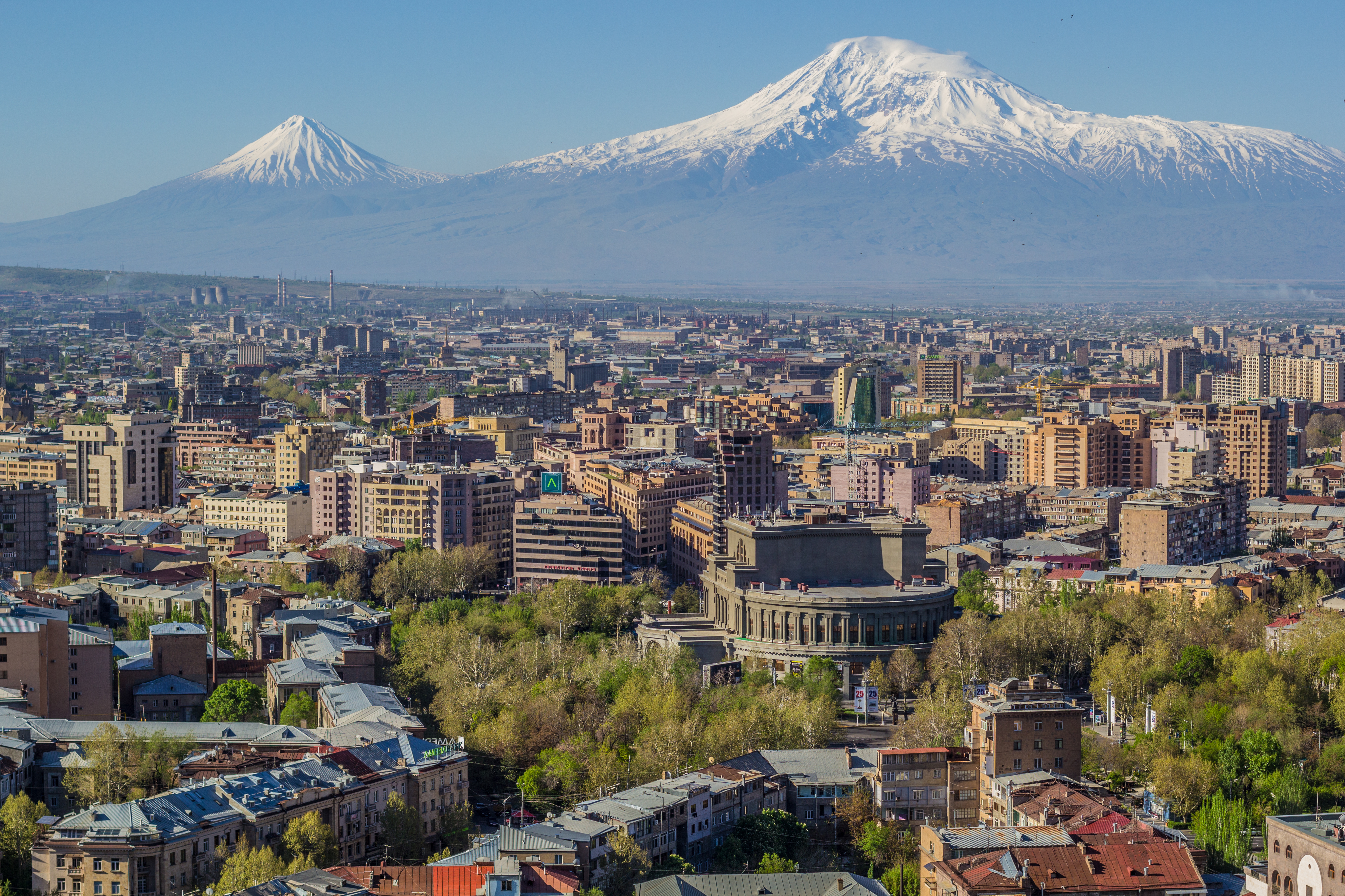 Mount Ararat and the Yerevan skyline. The Opera house is visible in the center.